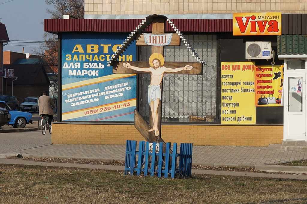 A crucifix in Karlivka, Ukraine